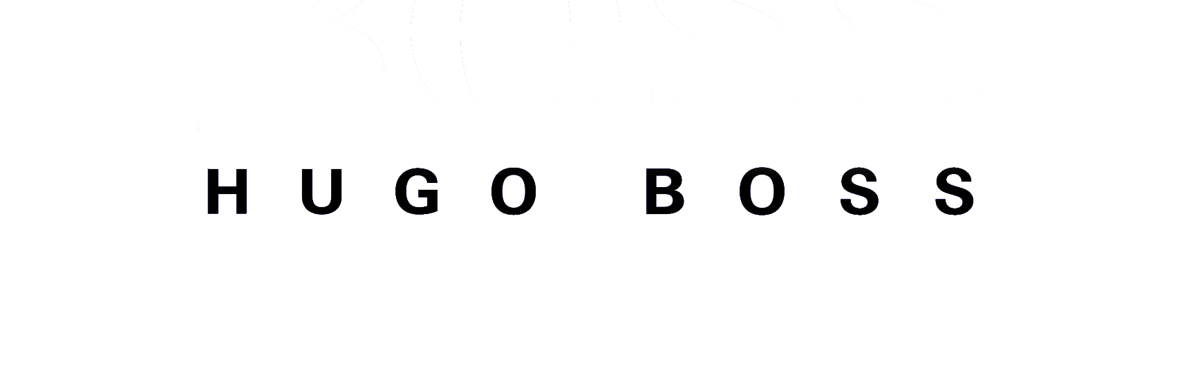 Hugo Boss AG logo